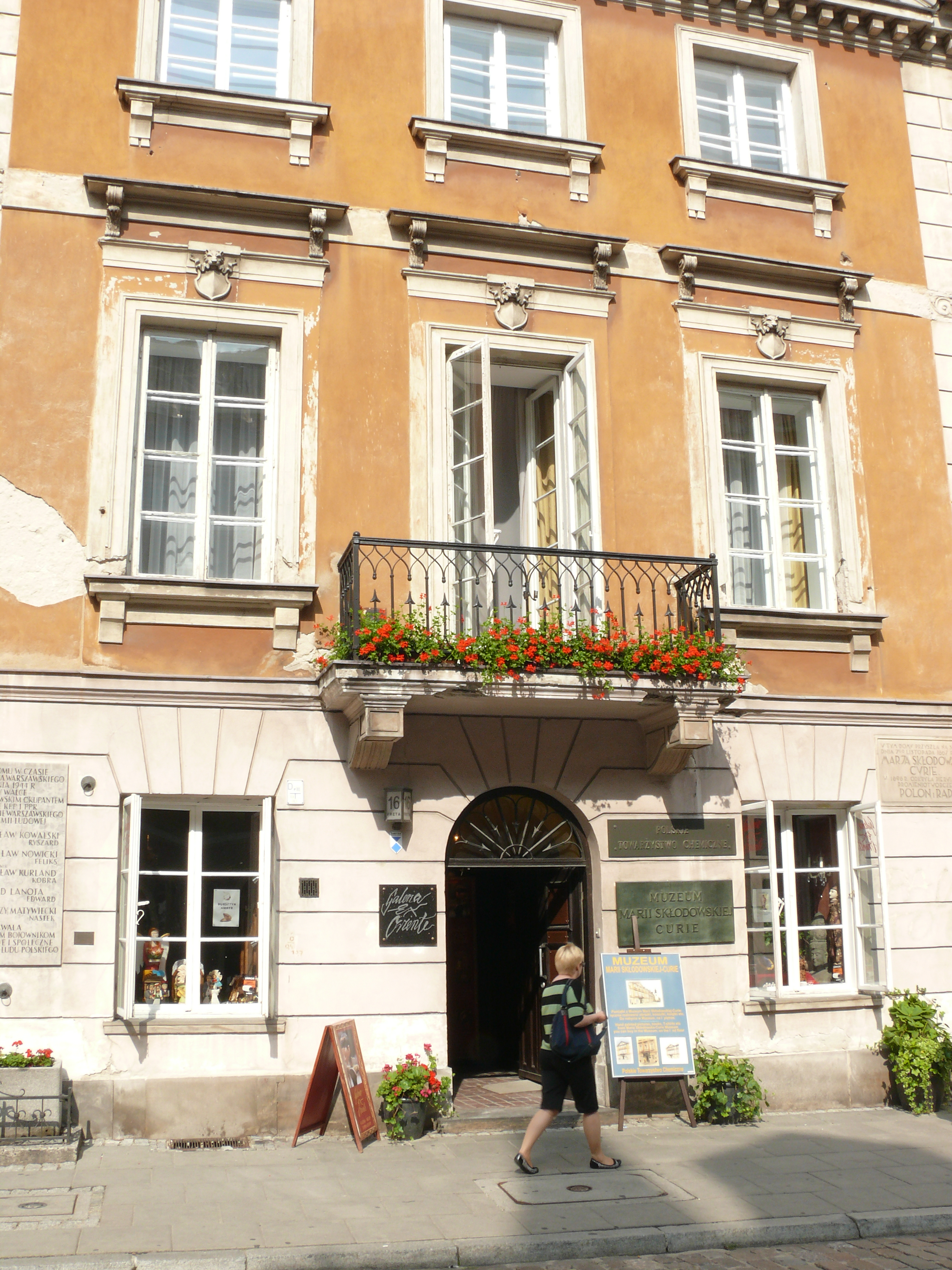 Marie Curie museum. Freta st., 16, Warsaw